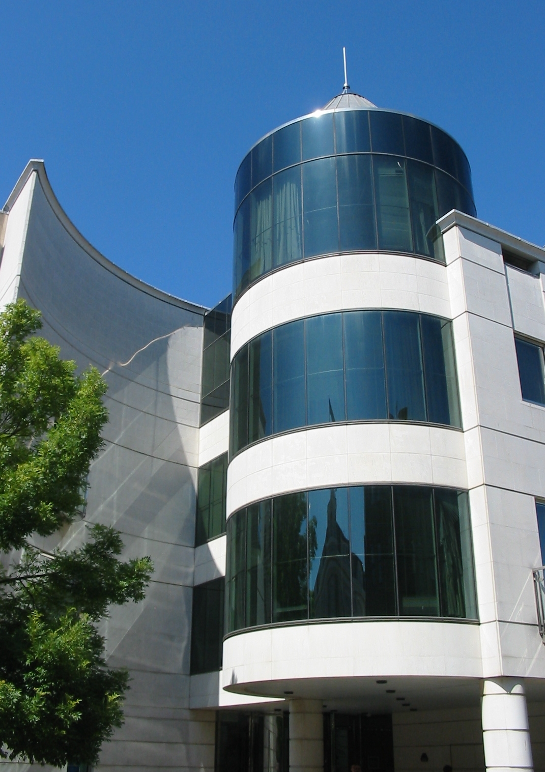 Building of Royal Bank of Scotland International in St. Helier, Jersey